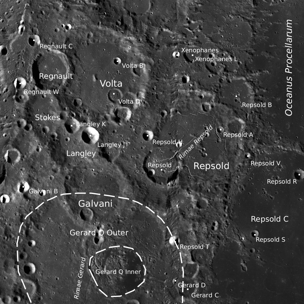 Moon craters Volta, Galvani, Repsold, Stokes and Regnault with satellite features (north at top; detail of LRO - WAC north pole mosaic)